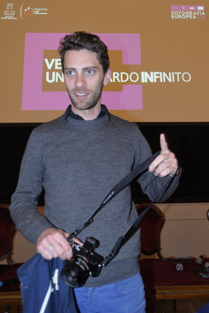 Reggio Emilia, Italy: Magnum Night at the Valli Theater